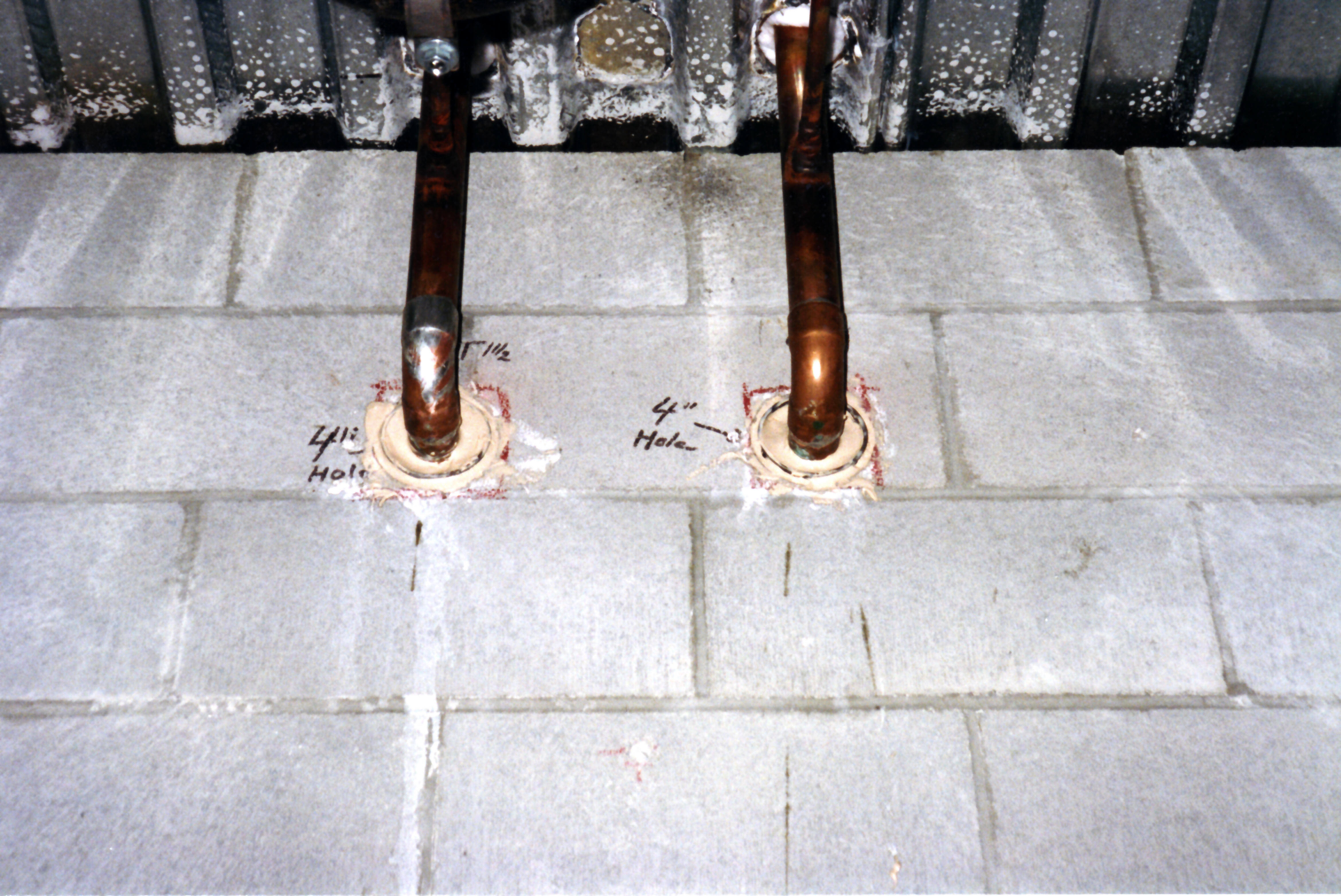 2" copper pipe firestops in a concrete block wall, made of sodium silicate based intumescent firestop caulking.